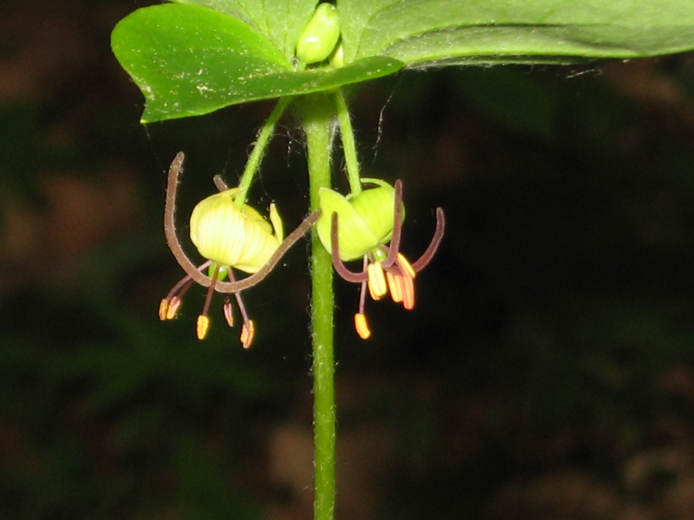 Photo showing the blossoms of Medeola virginiana (Indian cucumber-root).